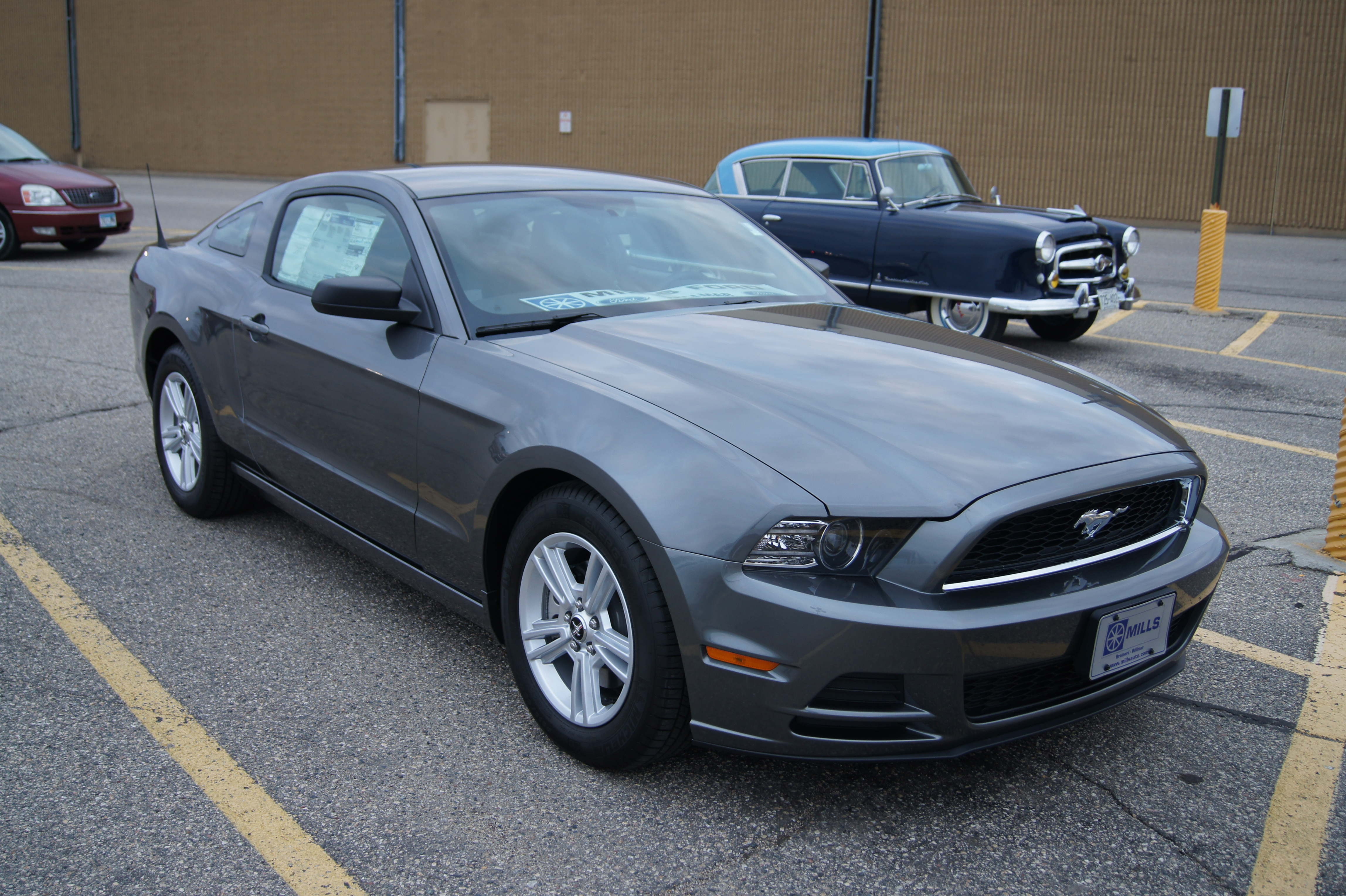 Willmar Car Club 2014 Kandi Mall Display